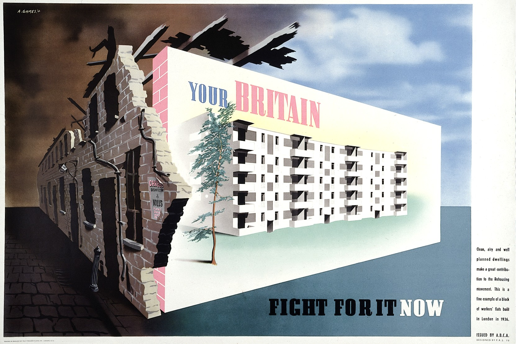 A modern block of flats contrasted with a row of unhealthy terrace houses. Colour lithograph after A. Games, 1942. Iconographic Collections Keywords: Housing; Abram Games; Army Bureau of Current Affairs.